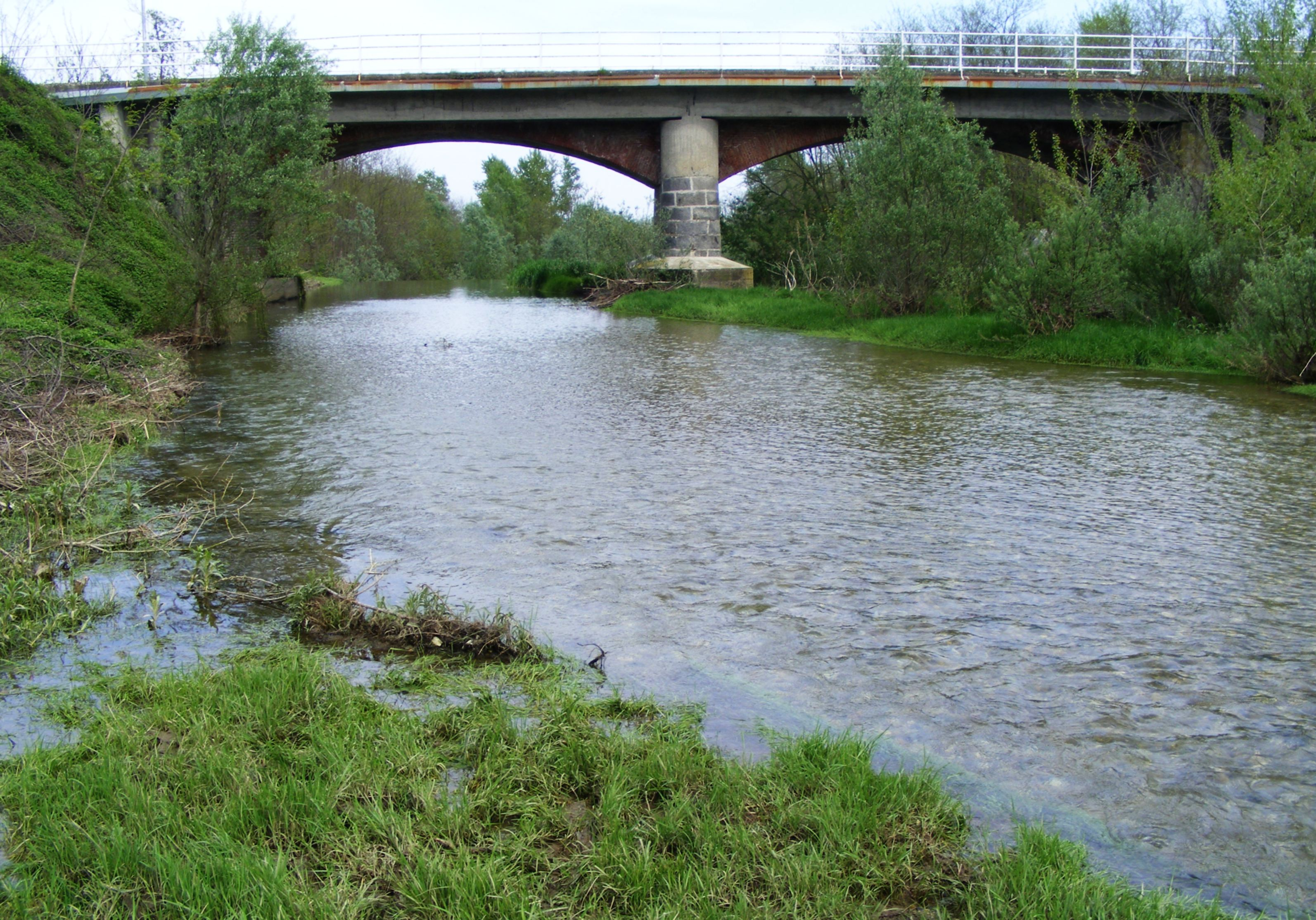 Cerrione: bridge on the Olobbia (BI, Italy)